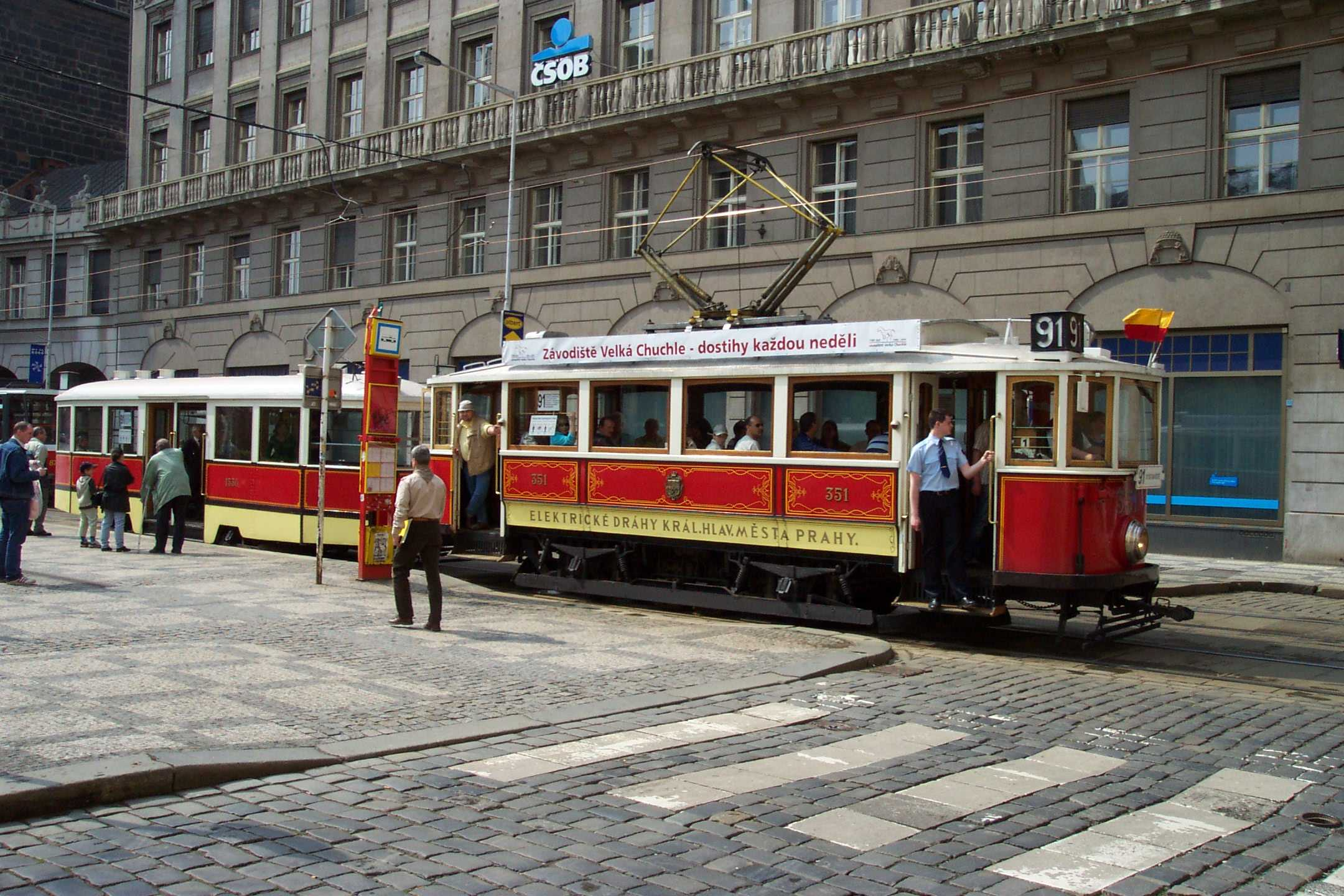 Old tram near Senovážné náměstí in Prague